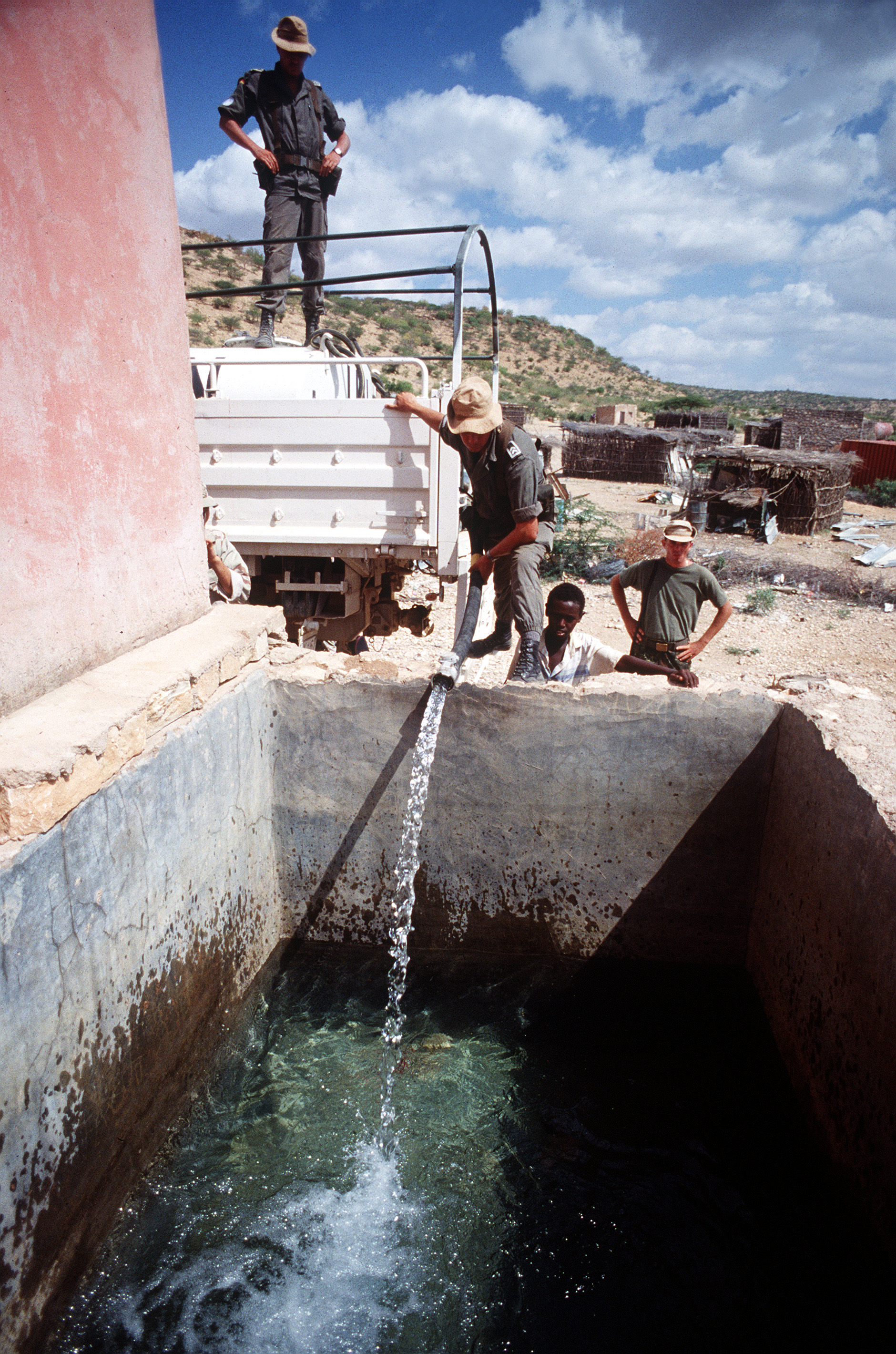 A serviceman of the German Army fills a water basin at a school house in Belet Uen, Somalia. The water is brought from a water purification site that was built by the Germans to the school so the children have fresh water to drink in support of United Nations Operation Somalia (UNOSOM) II.